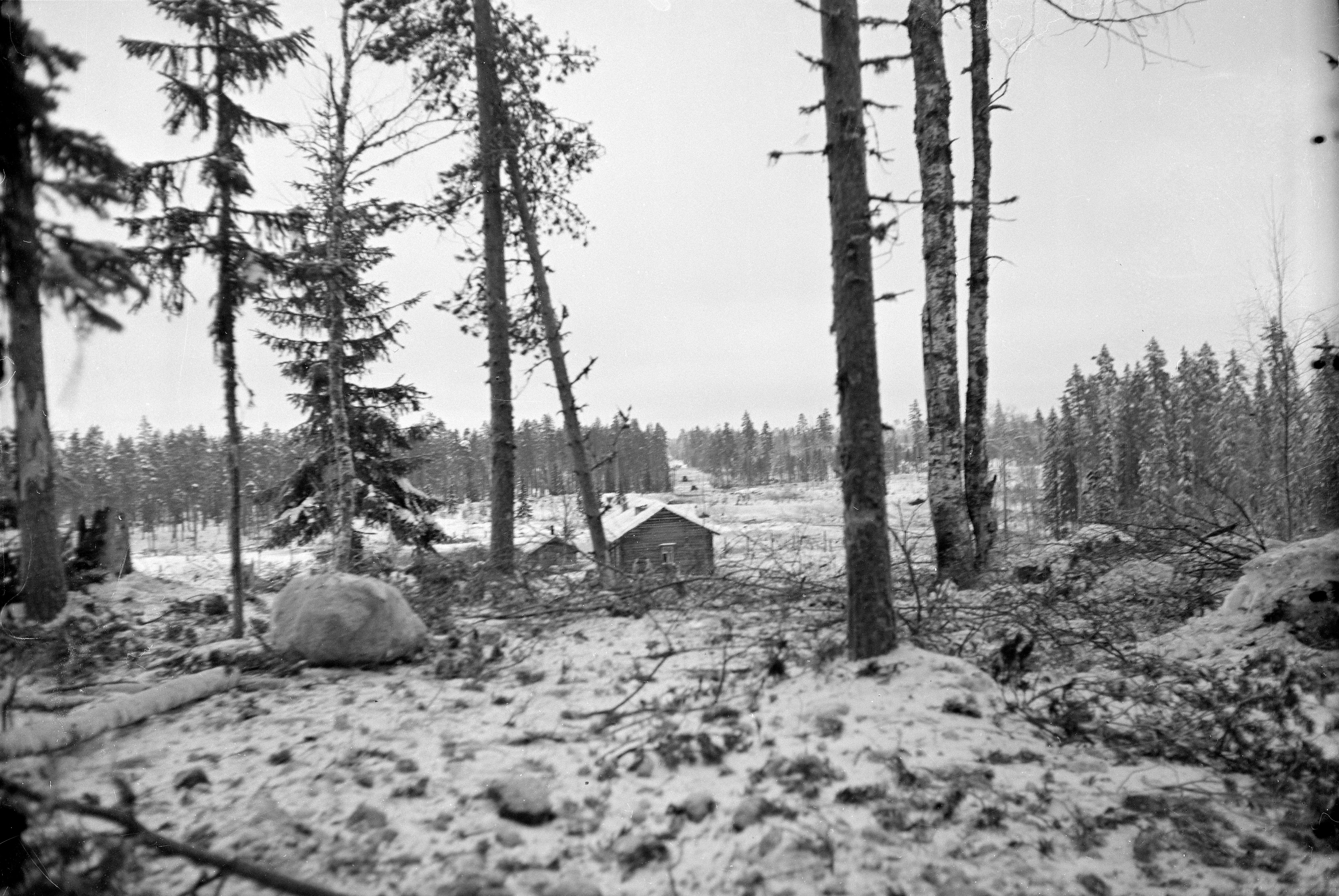 Eastern side of Kollaa River. Soviet artillery fire, a Soviet tank on the road in the background